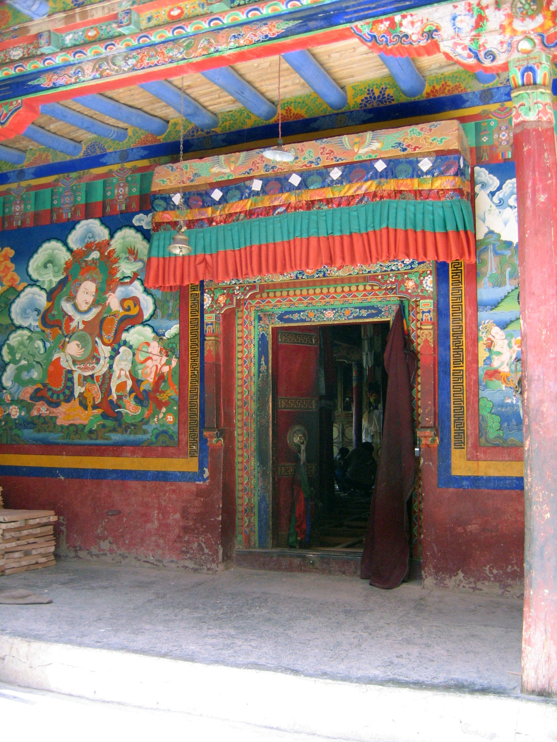 Mural and gate in Lamayuru Monastery, Ladakh.